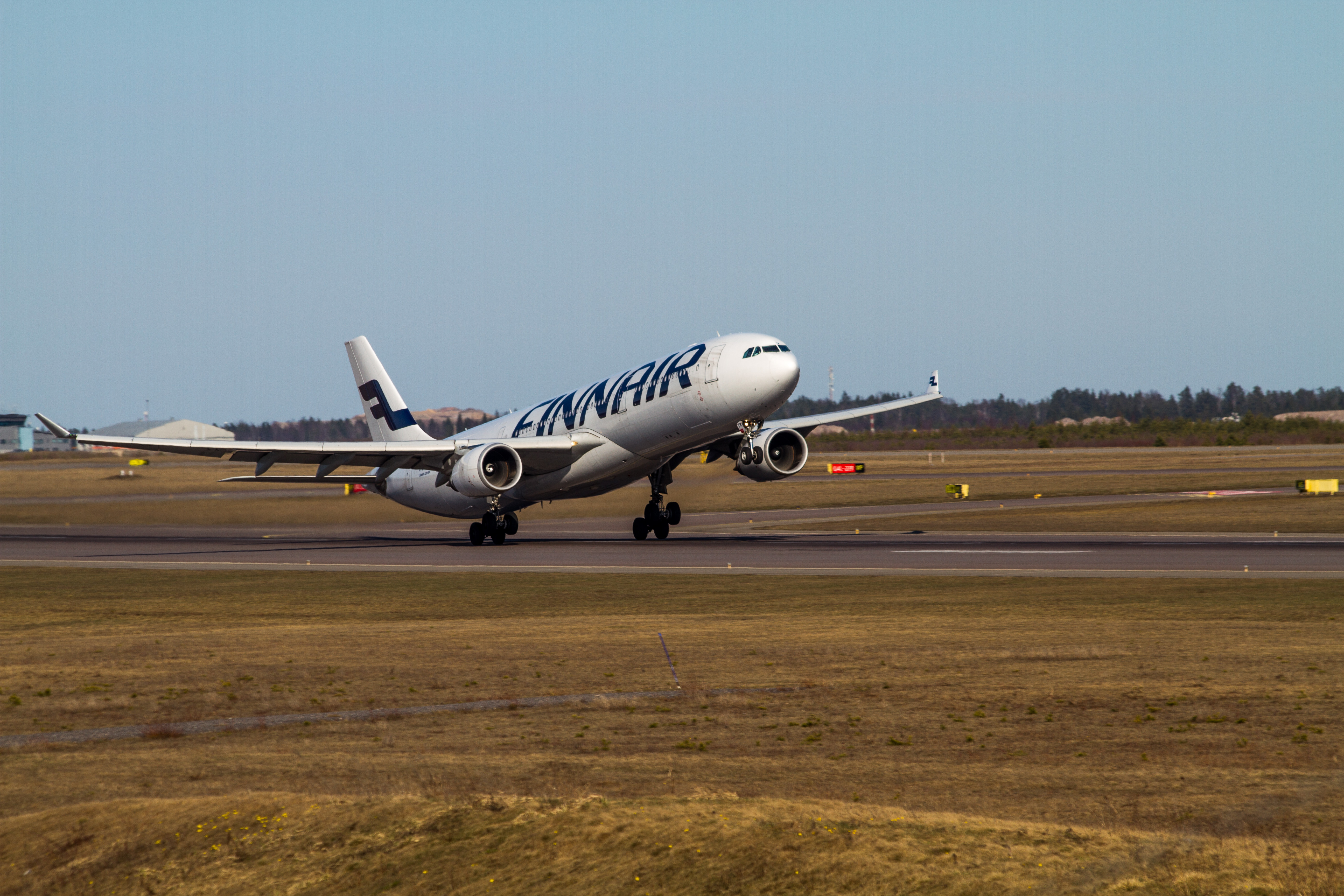 Finnair Airbus A330